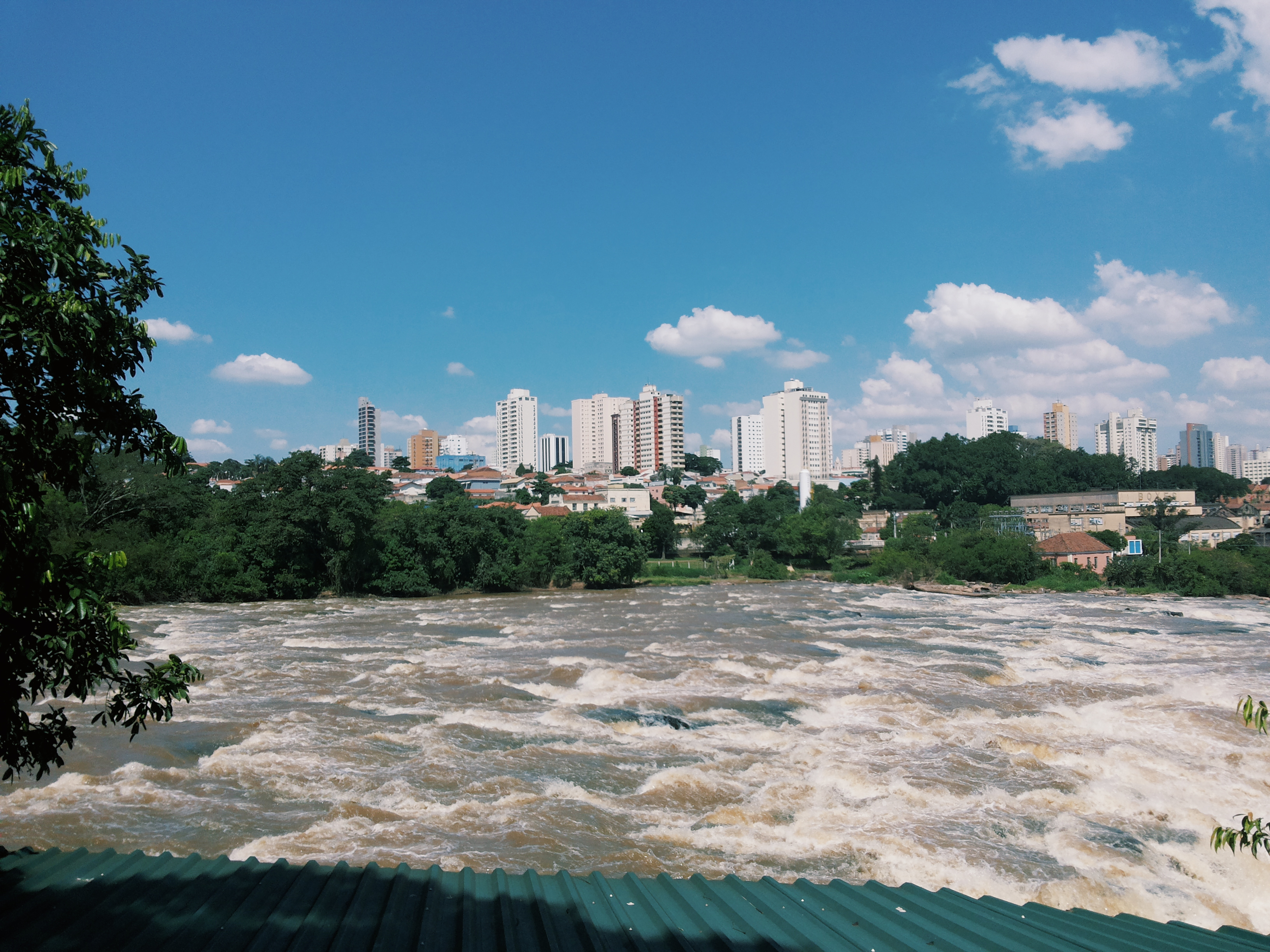 Piracicaba's River(Brazil)